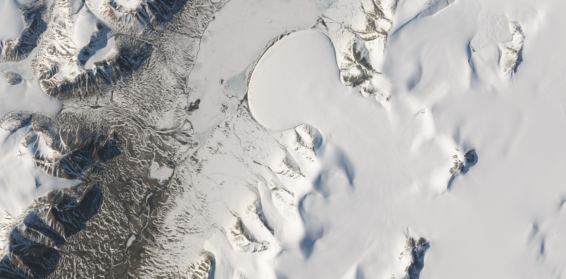 Elephant Foot Glacier at Romer Lake, Northeast Greenland Centered at 80.9° N, 19.5° W, acquired by Landsat 8.